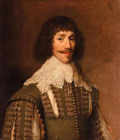 Portrait of a gentleman wearing a green tunic embroidered with gold, and a white lace collar